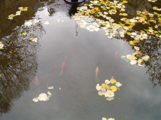 View of the Ernests, fishes inhabiting the fountain called the "bassin aux Ernests" in the main building of the École normale supérieure de Paris (ENS Ulm). These fishes have been thus called in memory of a former director of the school, Ernest Bersot (appointed there in 1871). A permanent student club, the Society for Ernests Expatriation and Xenophilia, is devoted to the study and propagation of their species throughought the world.